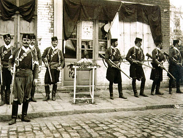 Corps of Cretan gendarmes in Thessaloniki. Picture postcard with a corps of Cretan gendarmes in Thessaloniki, 1912-1913, Thessaloniki